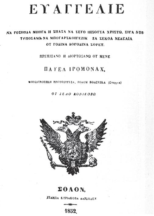 Konikovo Gospel, 1832